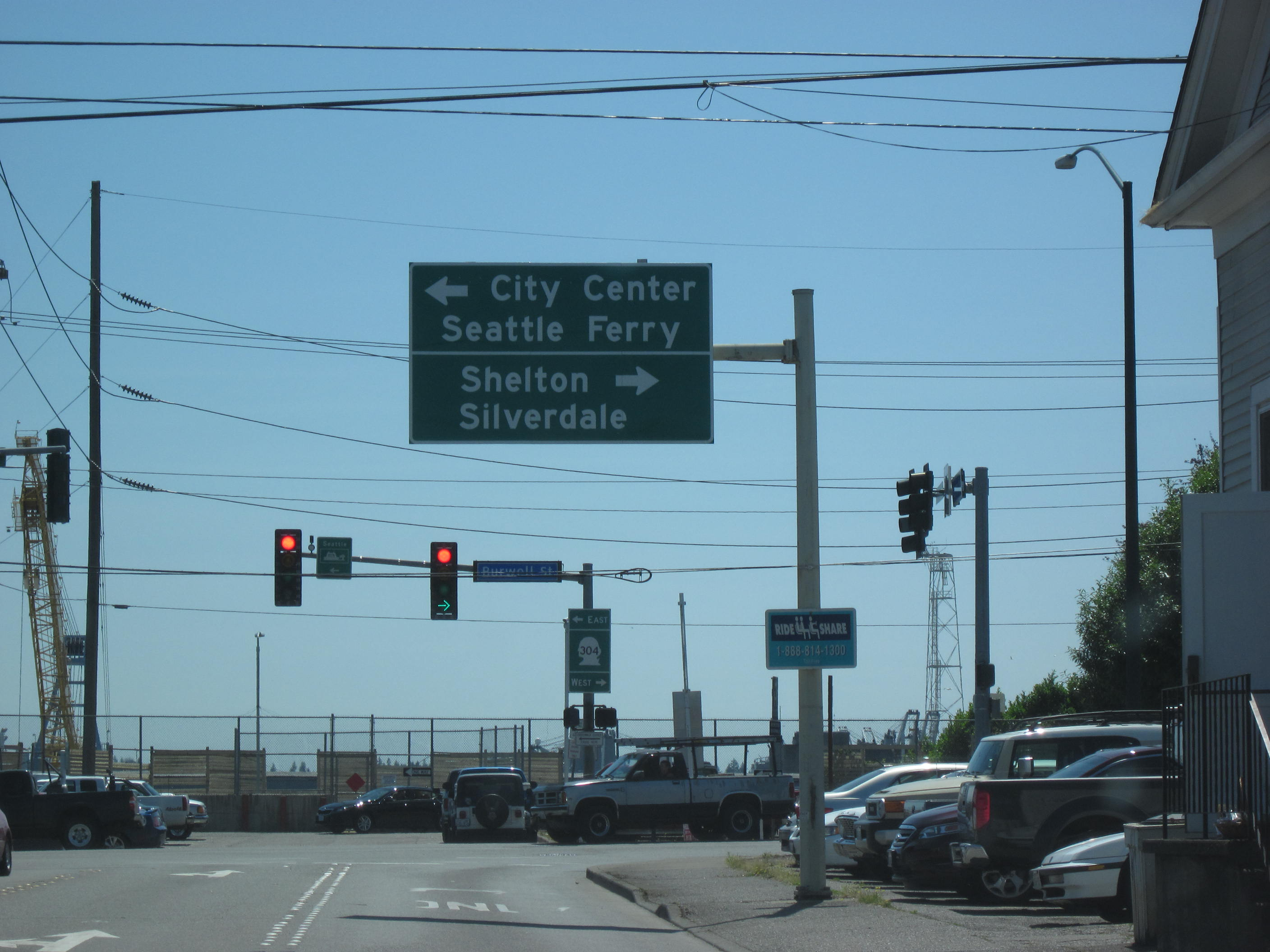 Washington State Route 303 southbound near its southern terminus with Washington State Route 304 in Downtown Bremerton.